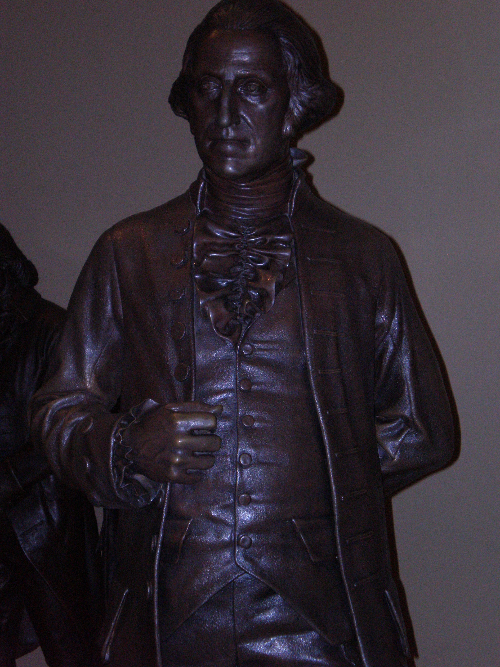 Life-size statue of George Washington at the National Constitution Center in Philadelphia, Pennsylvania (USA).